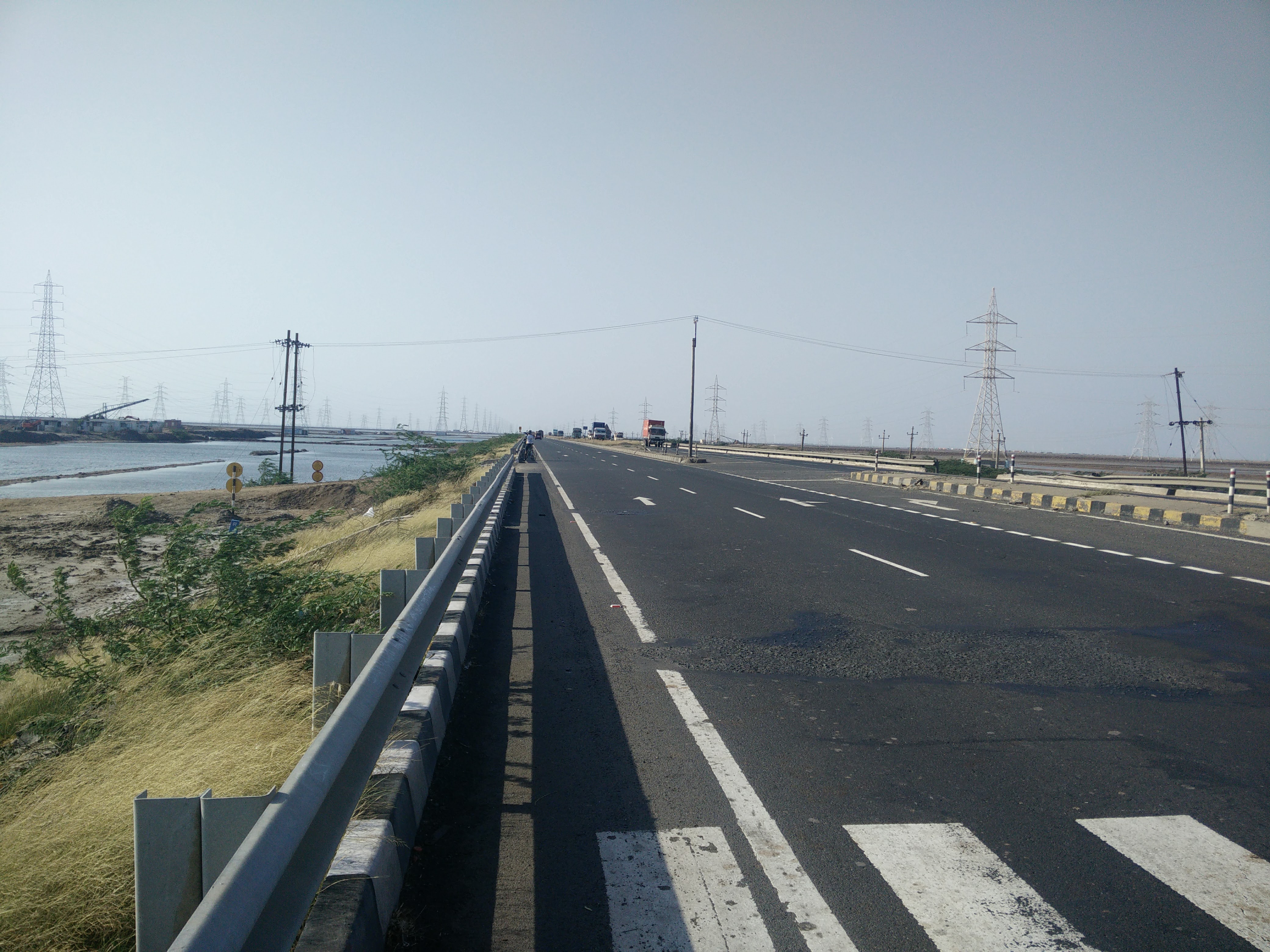 Surajbari bridge, Gujarat State Highway 6 towards the Kutch, Gujarat, India.